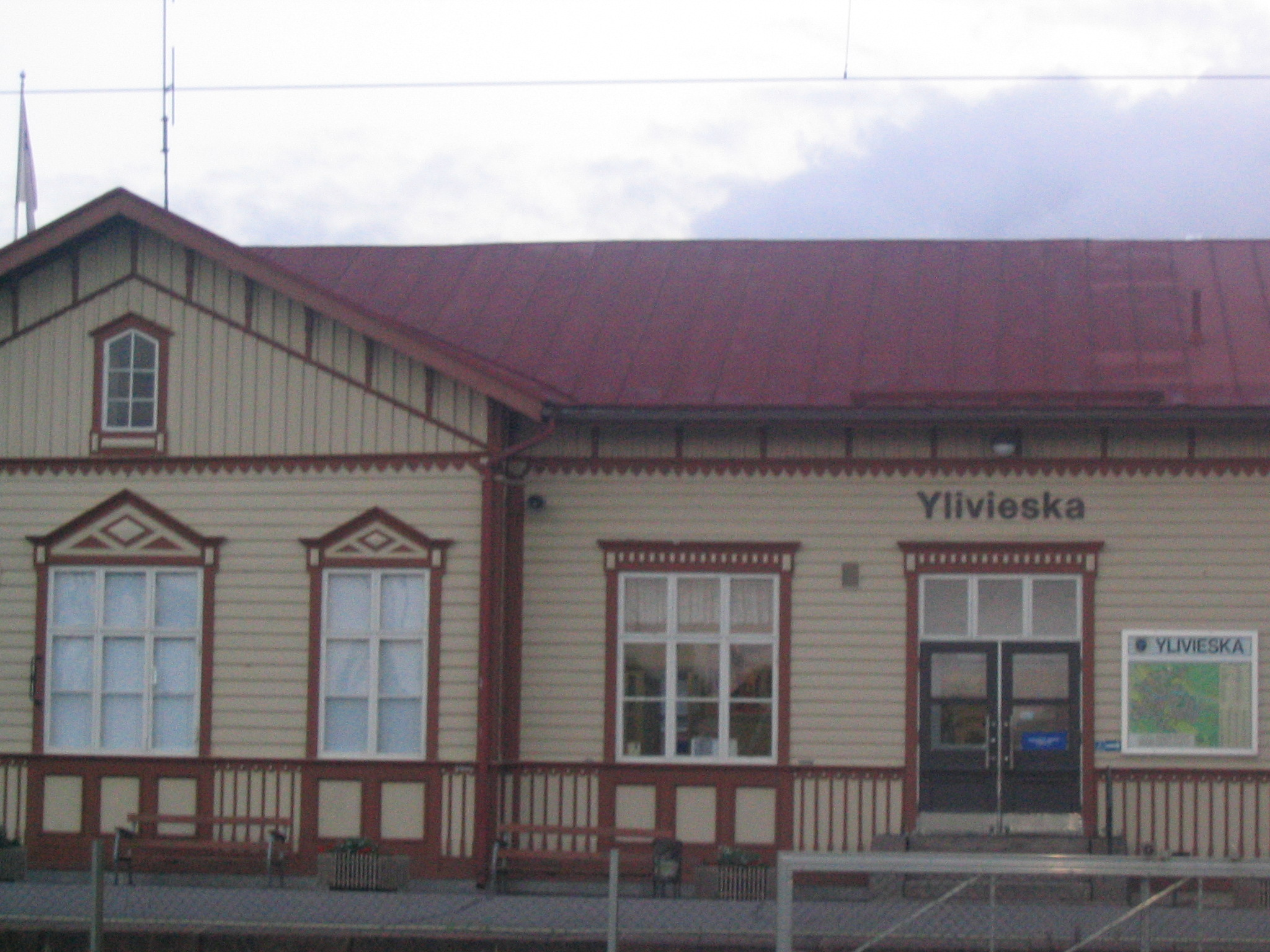 Ylivieska railway station, Ylivieska, Finland